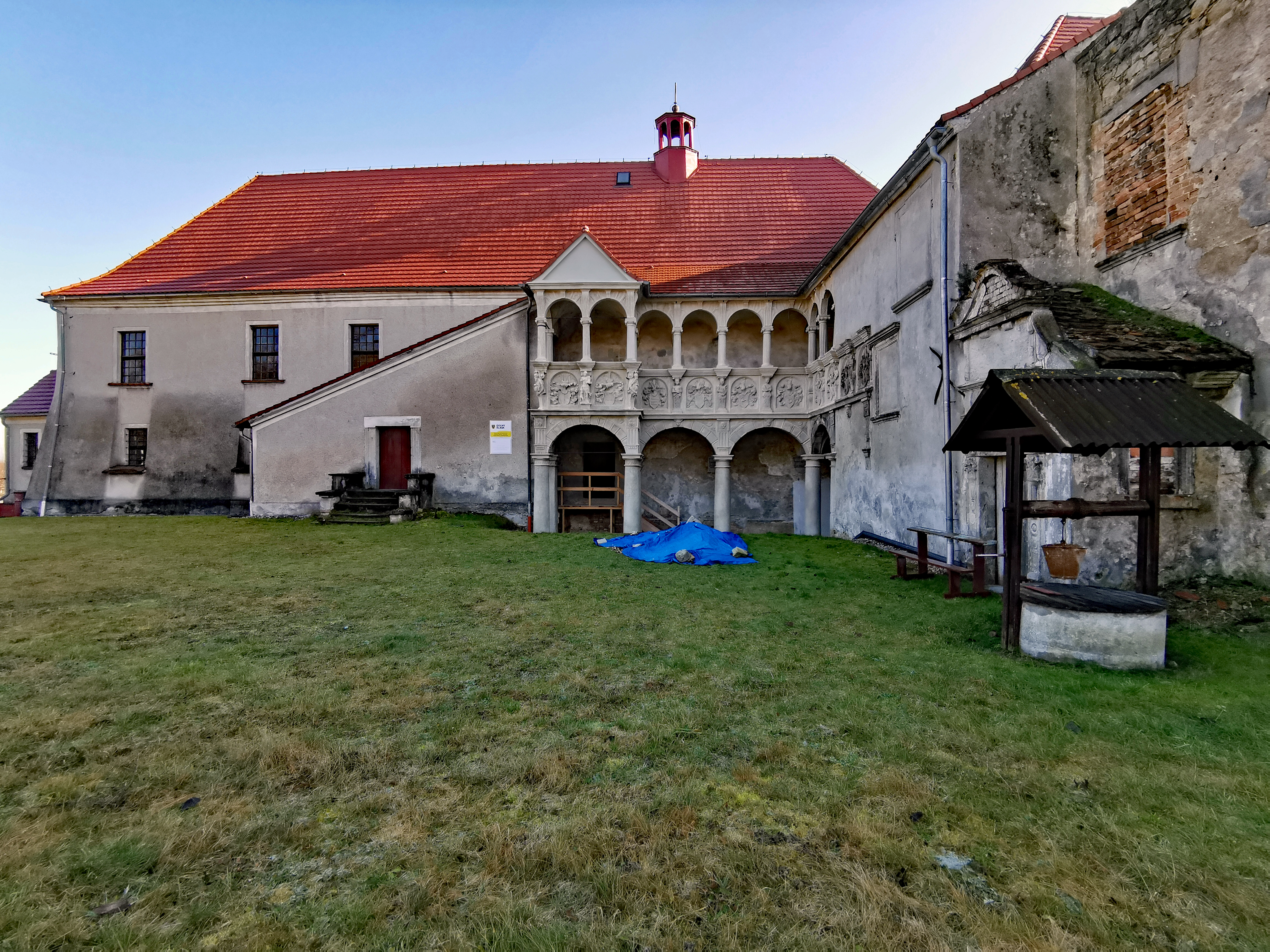 Nawojów Lużycki manor house, Poland